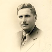 Shmaria Zameret